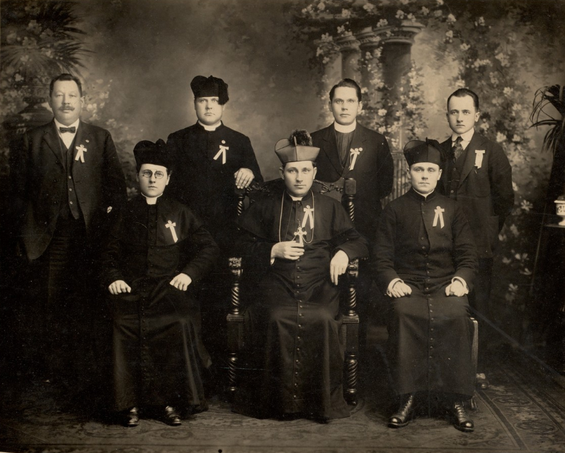 In 1917, a synod of the Lithuanian National Catholic Church was held in Lawrence, Mass. This group photo was from the seminary in Lawrence. Seated in the middle Bishop Stasys Mickevičius, on the left standing-parish pres. Petras Umpa, on the far right standing a new seminarian, and of the four new priests, two are Kun. Geniotis and Kun. Gritenis.